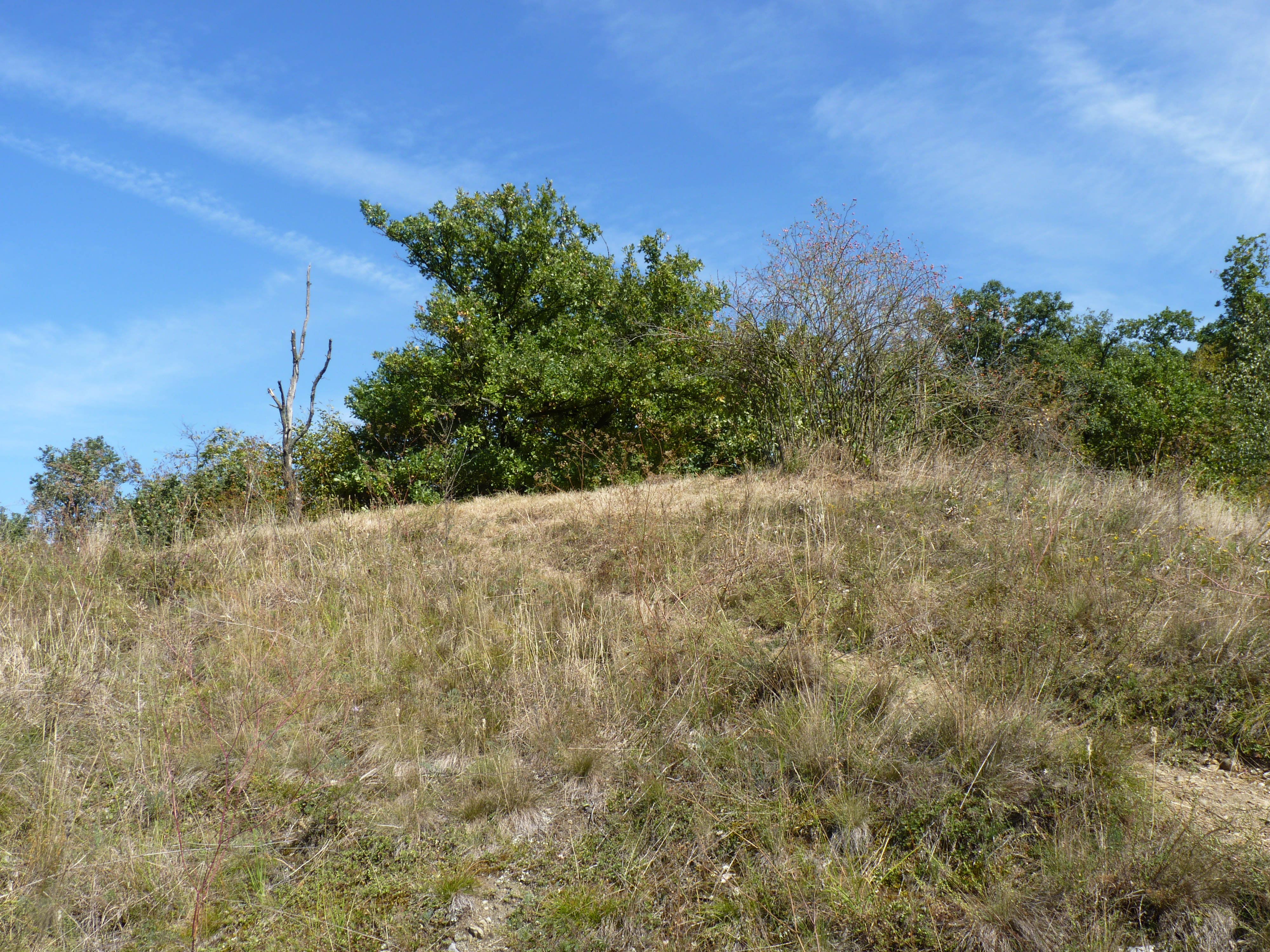 Velký hájek (natural monument). Brno-Country District, South Moravian Region, Czech Republic